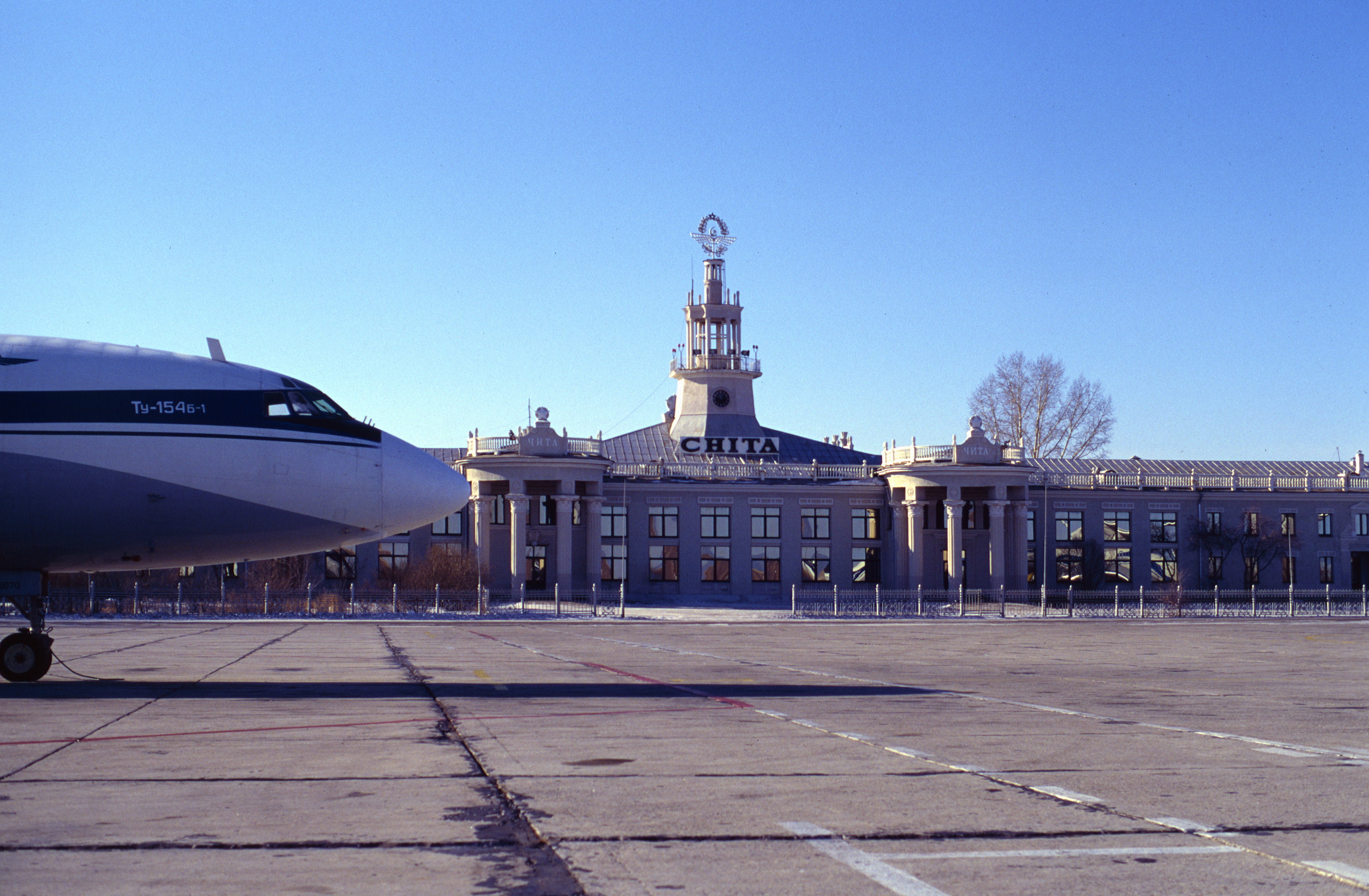 Tupolev Tu-154 and Chita Kadala airport, Russia